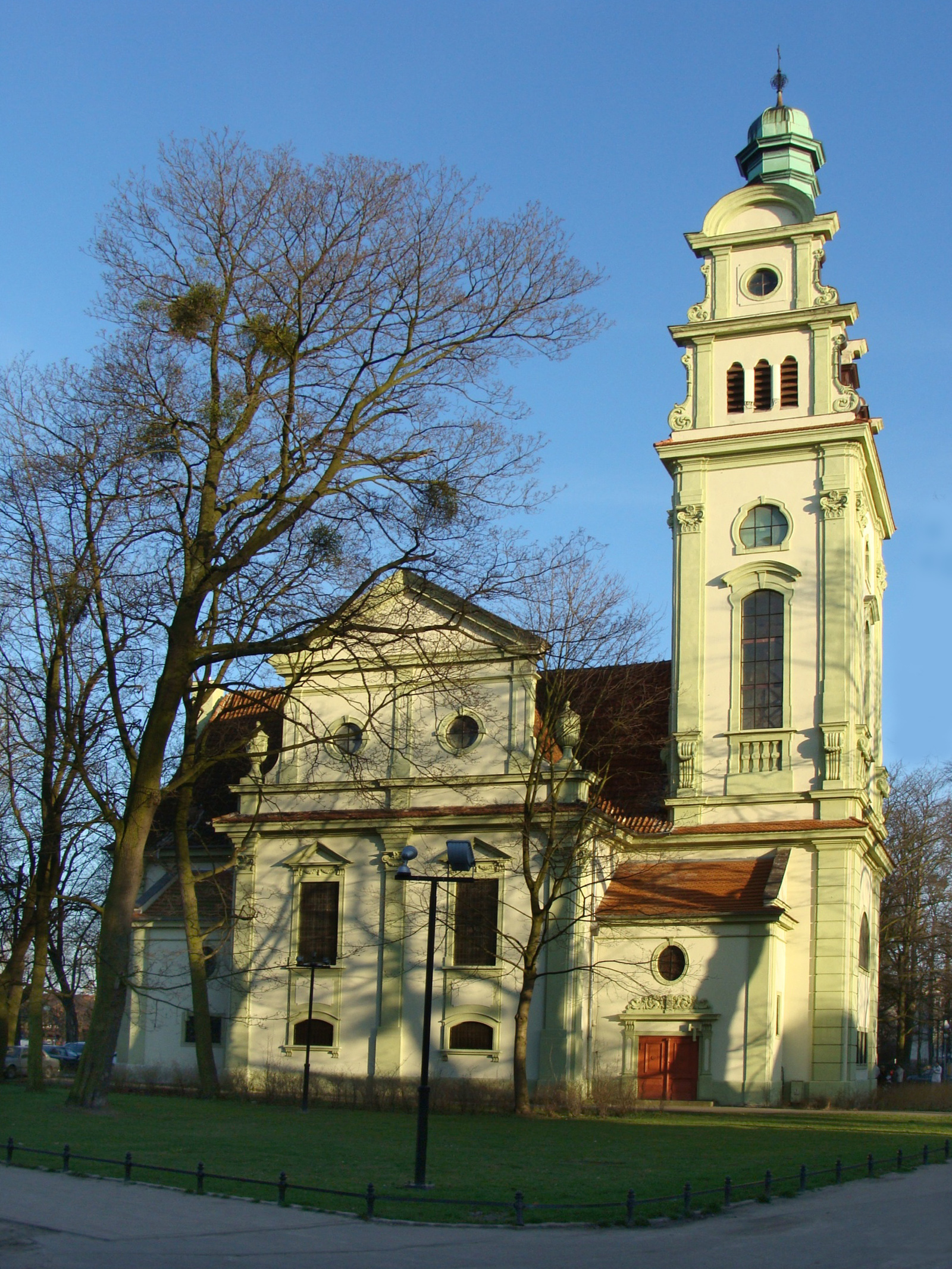 Evangelical-Augsburg Church in Sopot